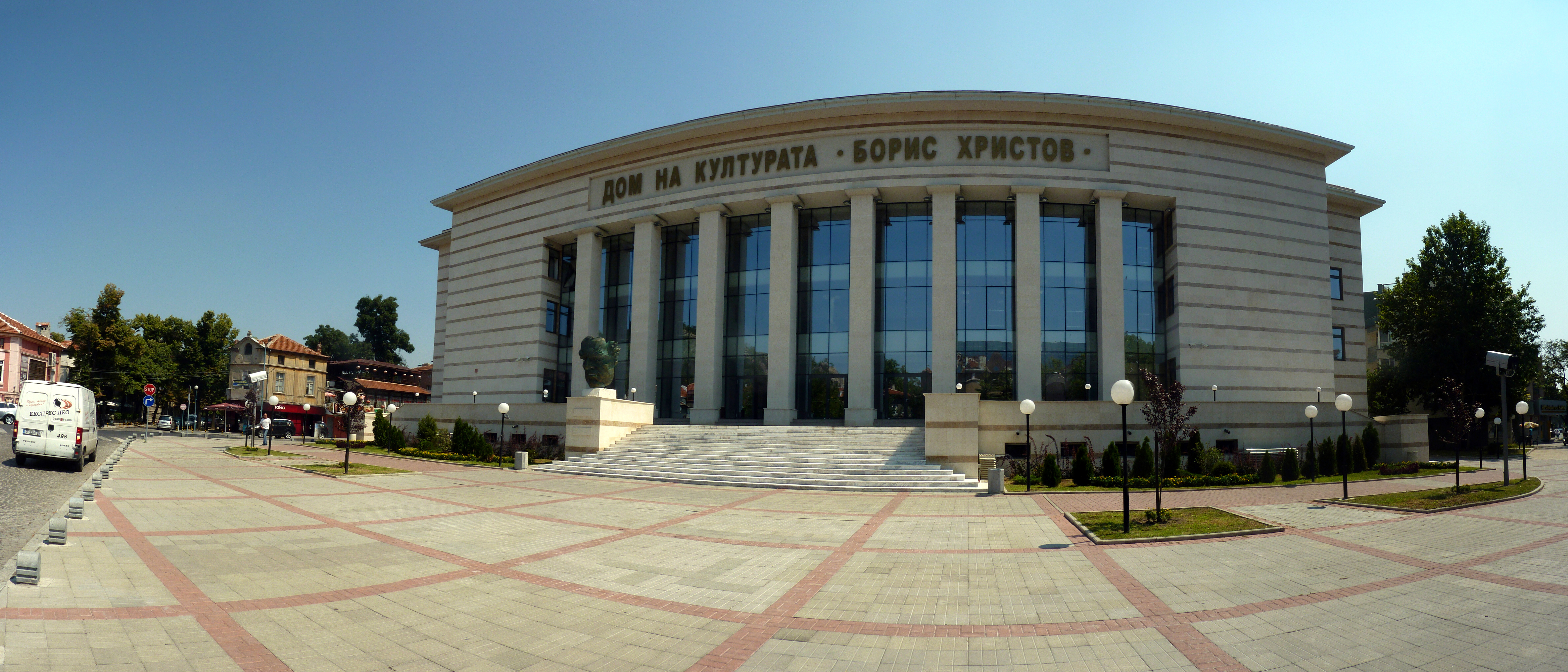 House of Culture Boris Hristov in Plovdiv